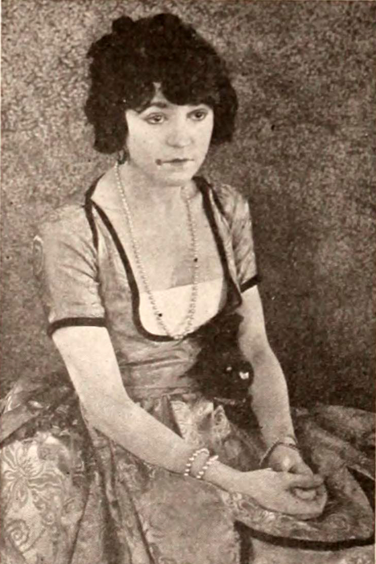 Alice Brady in a film still from Hush Money (1921).